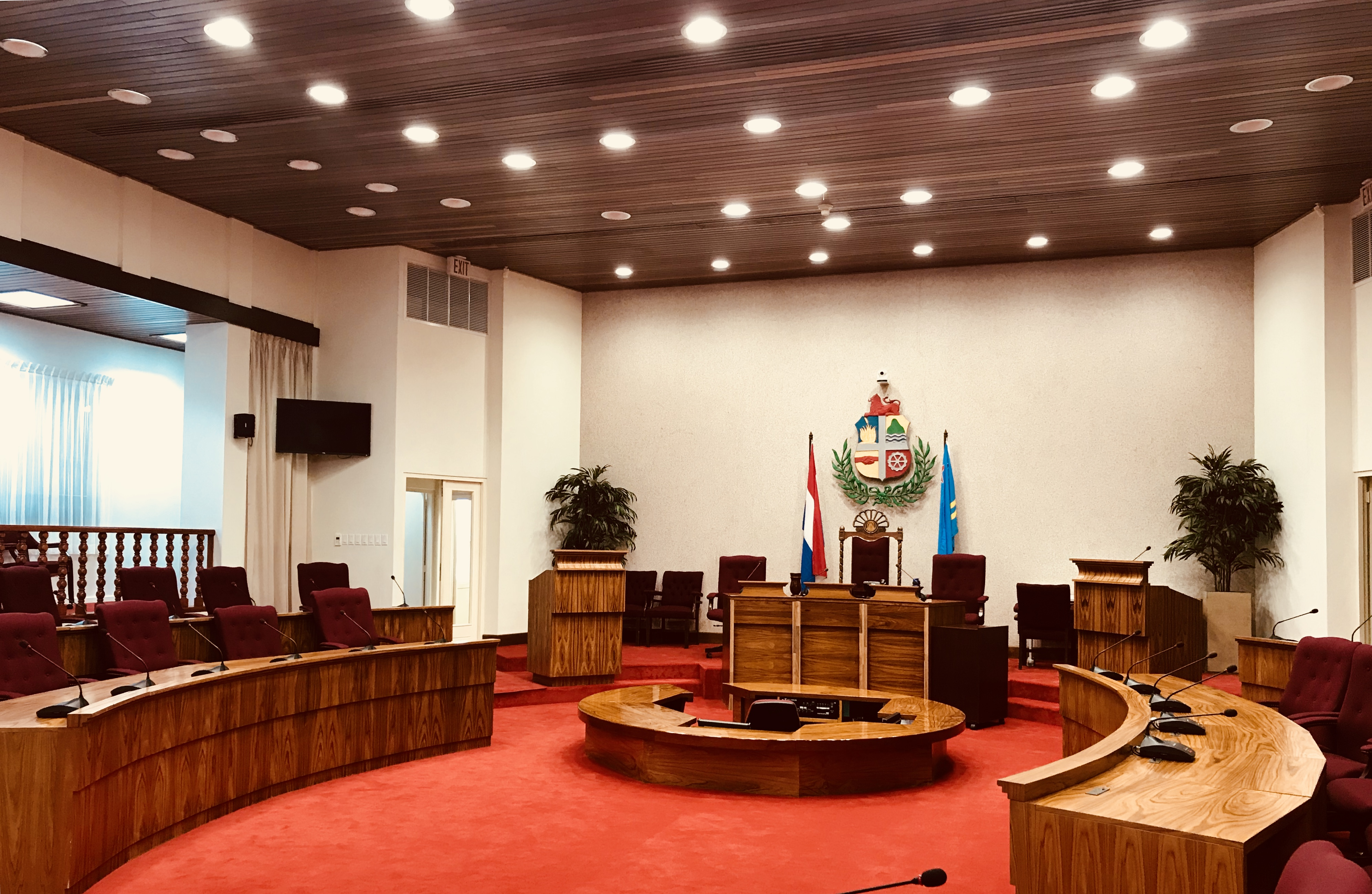 Arubian Parliament Papiamentu: Sala di reunion di Parlamento di Aruba